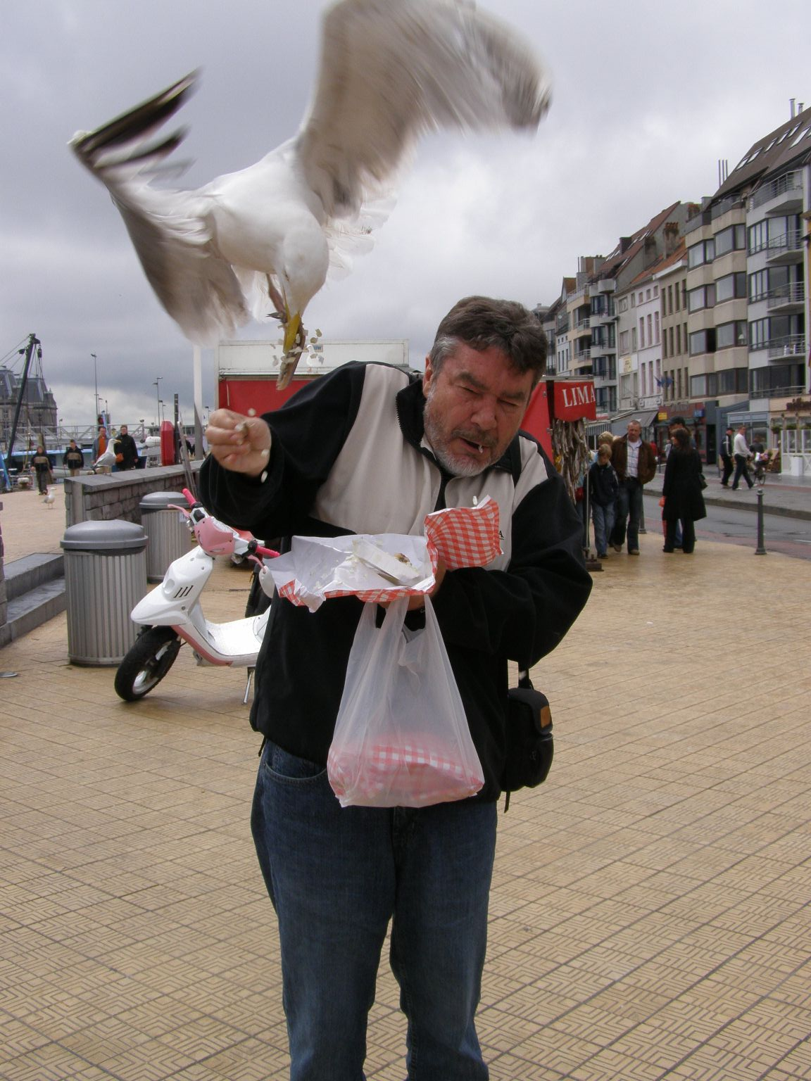 A Herring Gull (Larus argentatus), like a sniper, was waiting to strike and did. Oostende, Belgium. The photographer liked to have a picture from her Canadian uncle to show the way a prepared herring (maatje) has to be eaten.